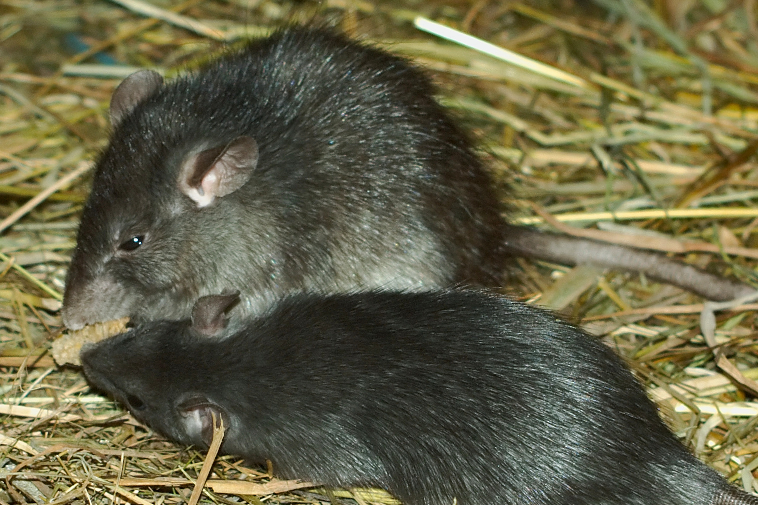 Two Black rats (Rattus rattus) in the Hagenbeck Zoo (Hamburg, Germany).